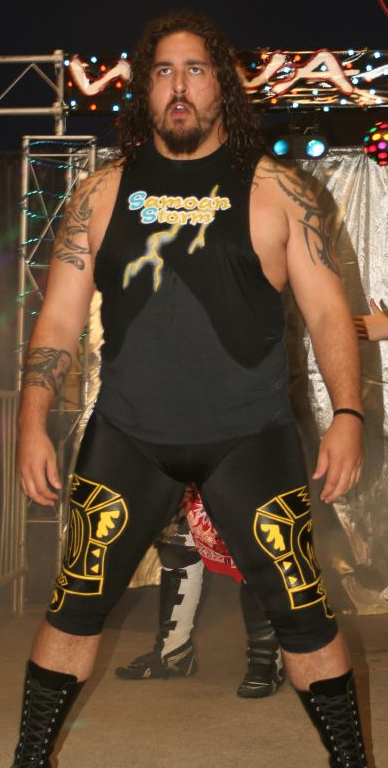 Professional wrestler Afa Anoaʻi Jr. in July 2009.